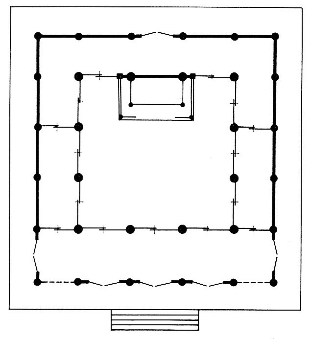 Layout of Choho-ji temple, Japan